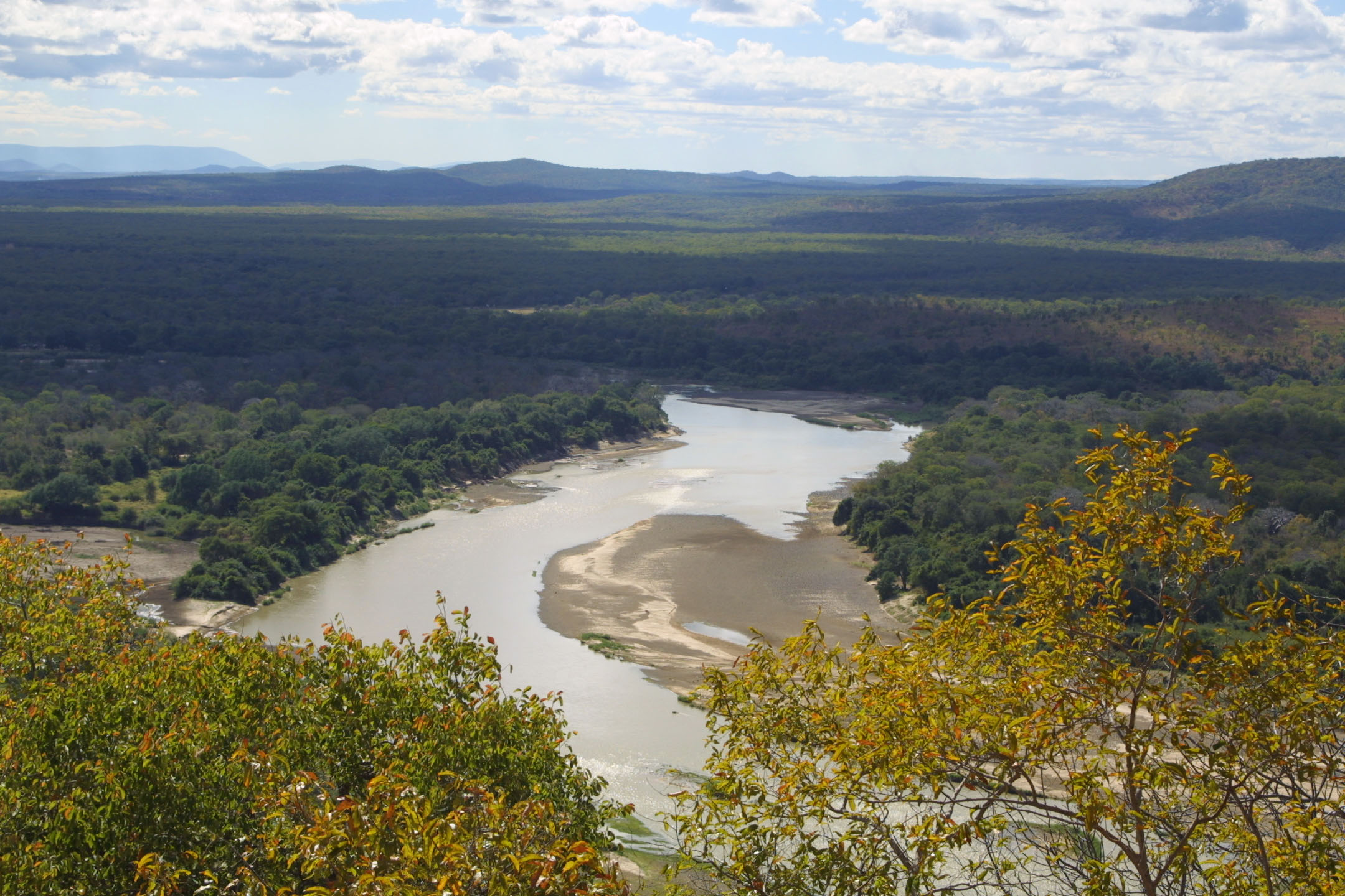 Southern reach, Luanwgwa river, Zambia